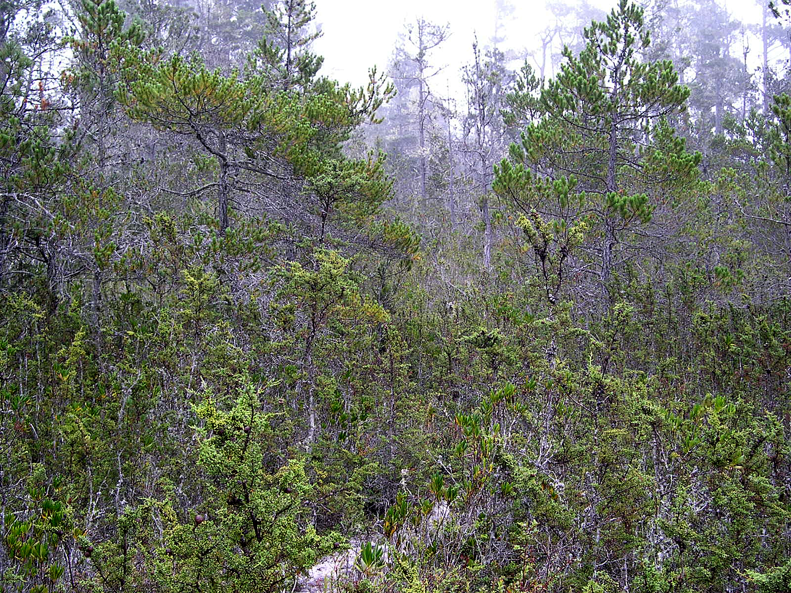 Cupressus pygmaea (Mendocino Cypress), and Pinus contorta var. bolanderi (Mendocino Shore Pine). Endemic trees in the Mendocino Pygmy Forest — a rare pygmy forest in Van Damme State Park, Mendocino, California. A National Natural Landmark of the United States.